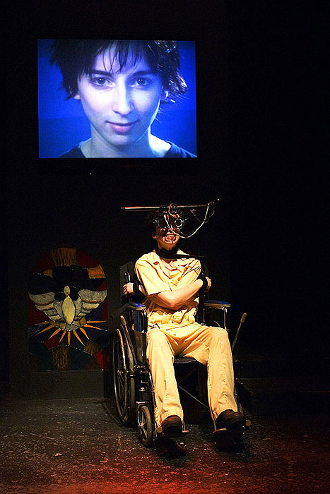 A production photo from Brad Mays' multi-media stage production of "A Clockwork Orange," by Anthony Burgess, performed in Los Angeles in 2003. The photograph was commissioned by photographer Peter Zuehlke, and depicts Vanessa Claire Smith in her award-winning, gender bending portrayal of Alex.